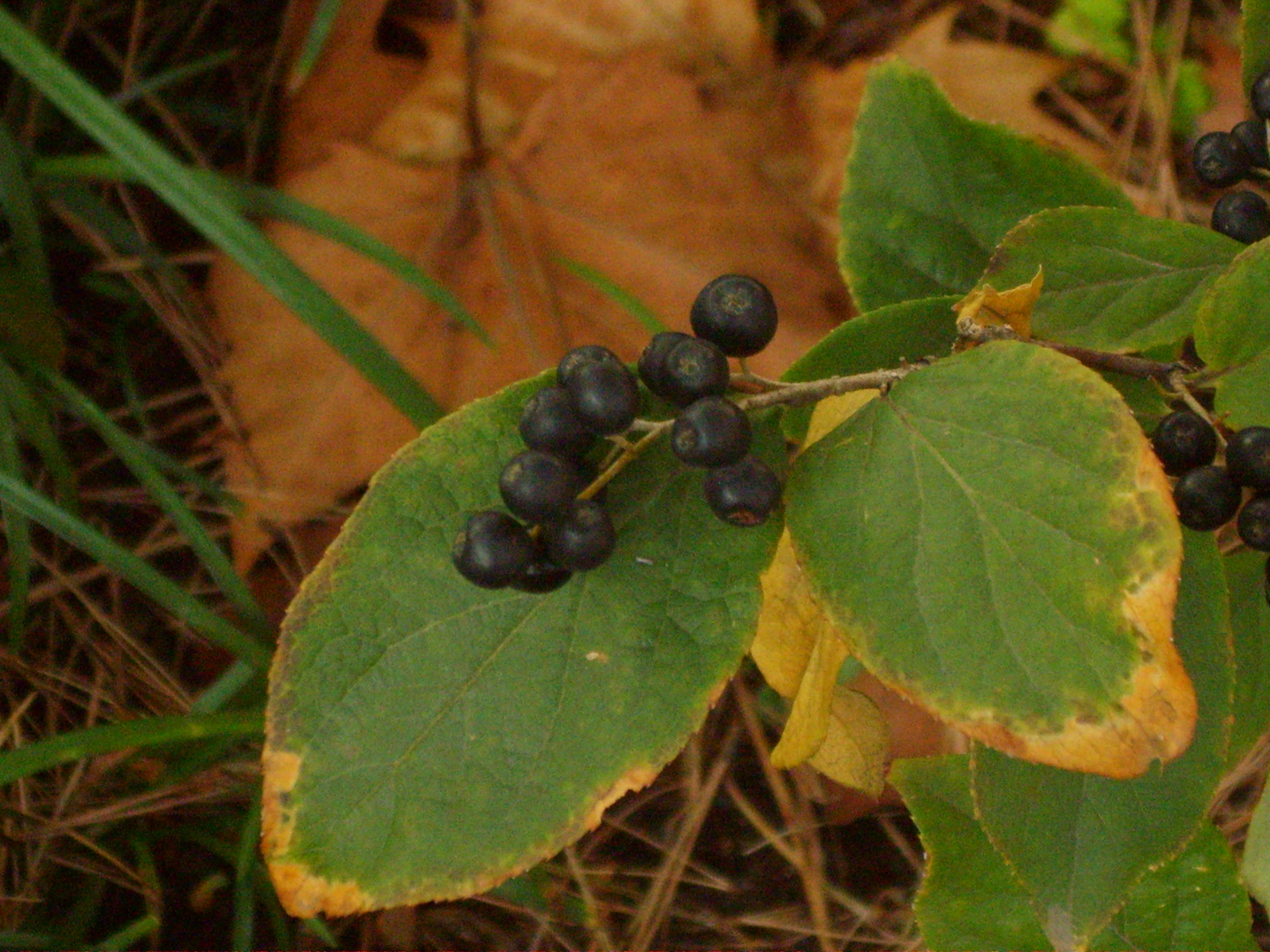 Symplocos chinensis for. pilosa's fruits